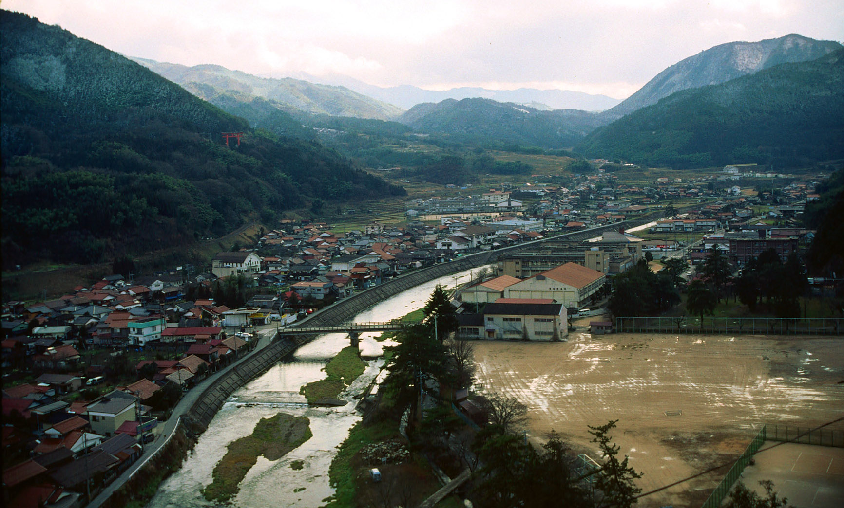 Tsuwano, Shimane Prefecture, Japan. I took this photo.